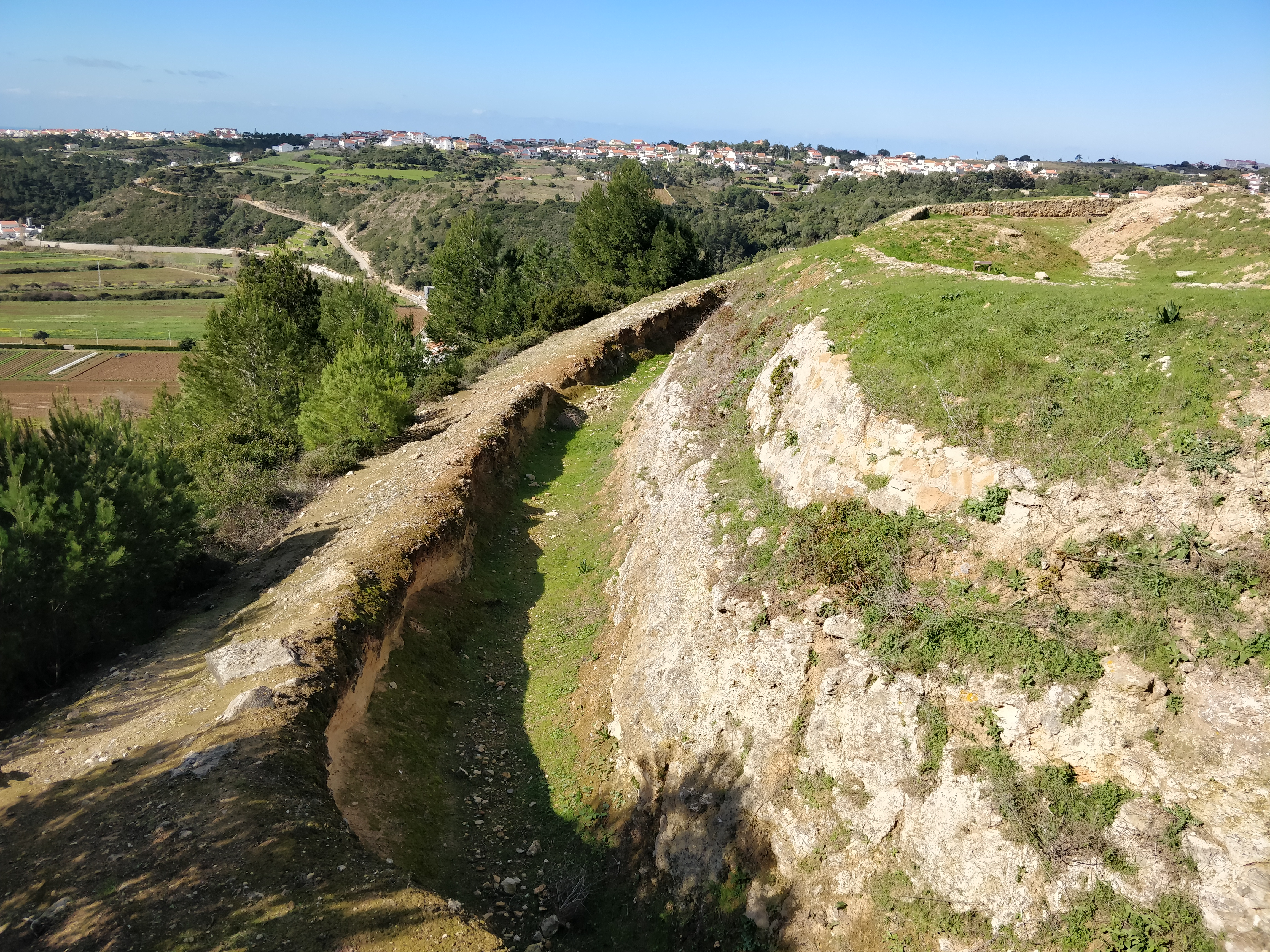 Moat of the Fort of Zambujal in Mafra, Portugal.